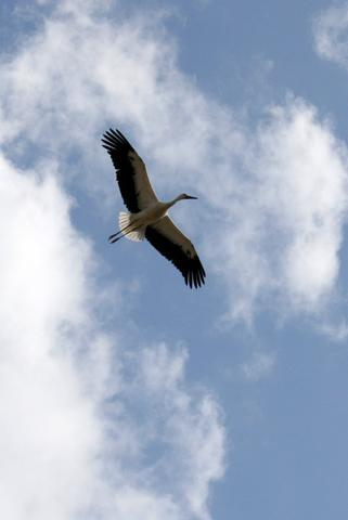 A Spanish stork (cigüeña) flying over the city of Ávila in Spain. Photo taken and uploaded by Elizabeth Goergen.